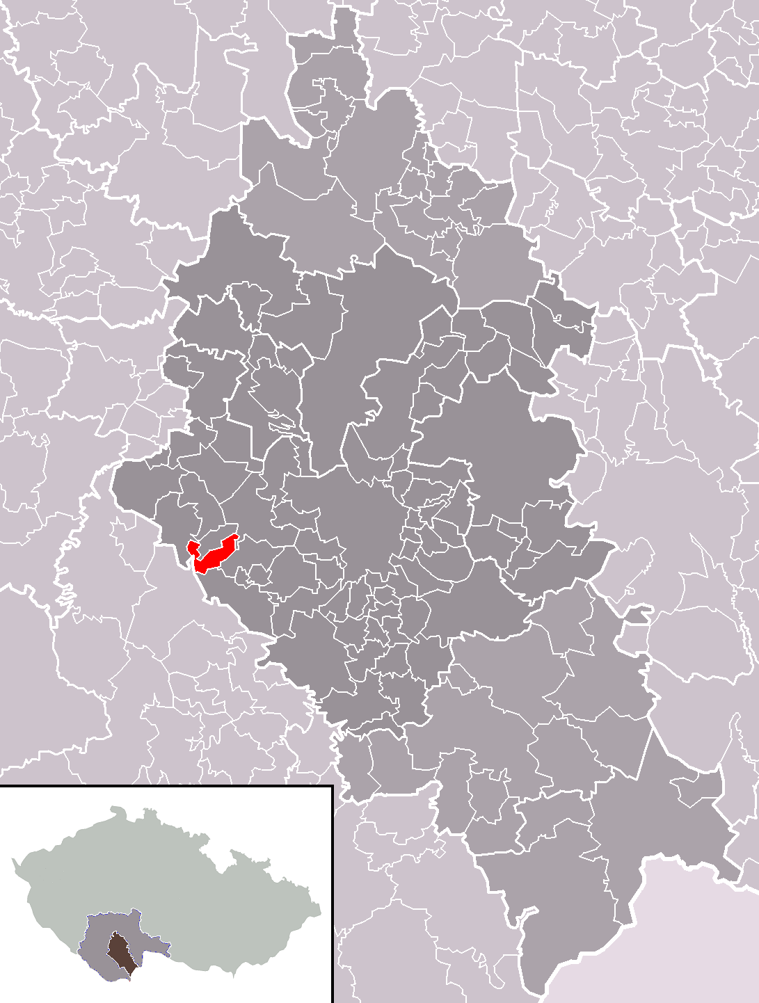 Location of Habří municipality within České Budějovice District and administrative area of České Budějovice as a Municipality with Extended Competence.